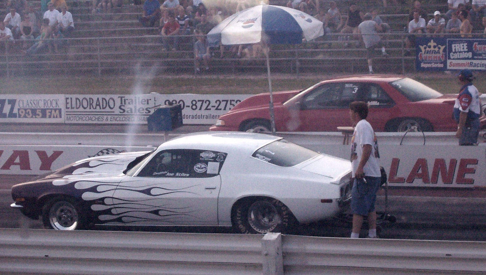 Wisconsin International Raceway June.16.2007 - Outlaw SuperStocks touring series. Note the driver in the near lane is purging the nitrous oxide line prior to making a dragstrip pass.Wisconsin International Raceway 06.16.07 - Outlaw SuperStocks